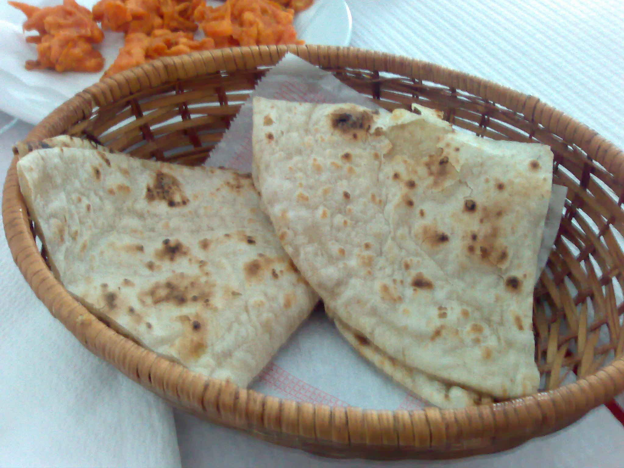 Chapati in Lisbon, Portugal.